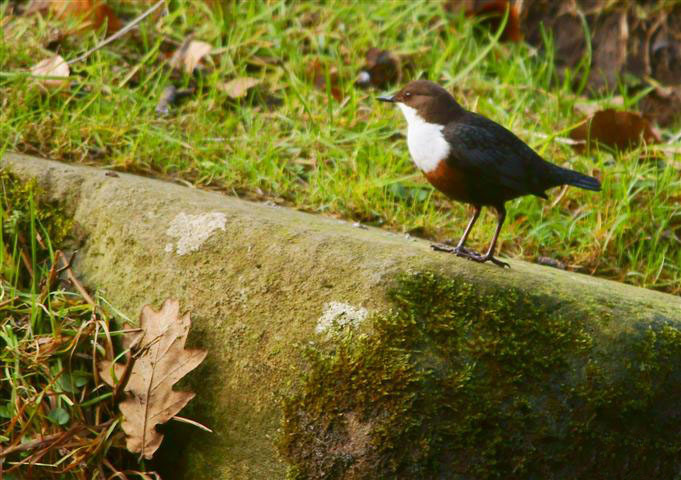 A White-throated Dipper in Glenrothes, Scotland.